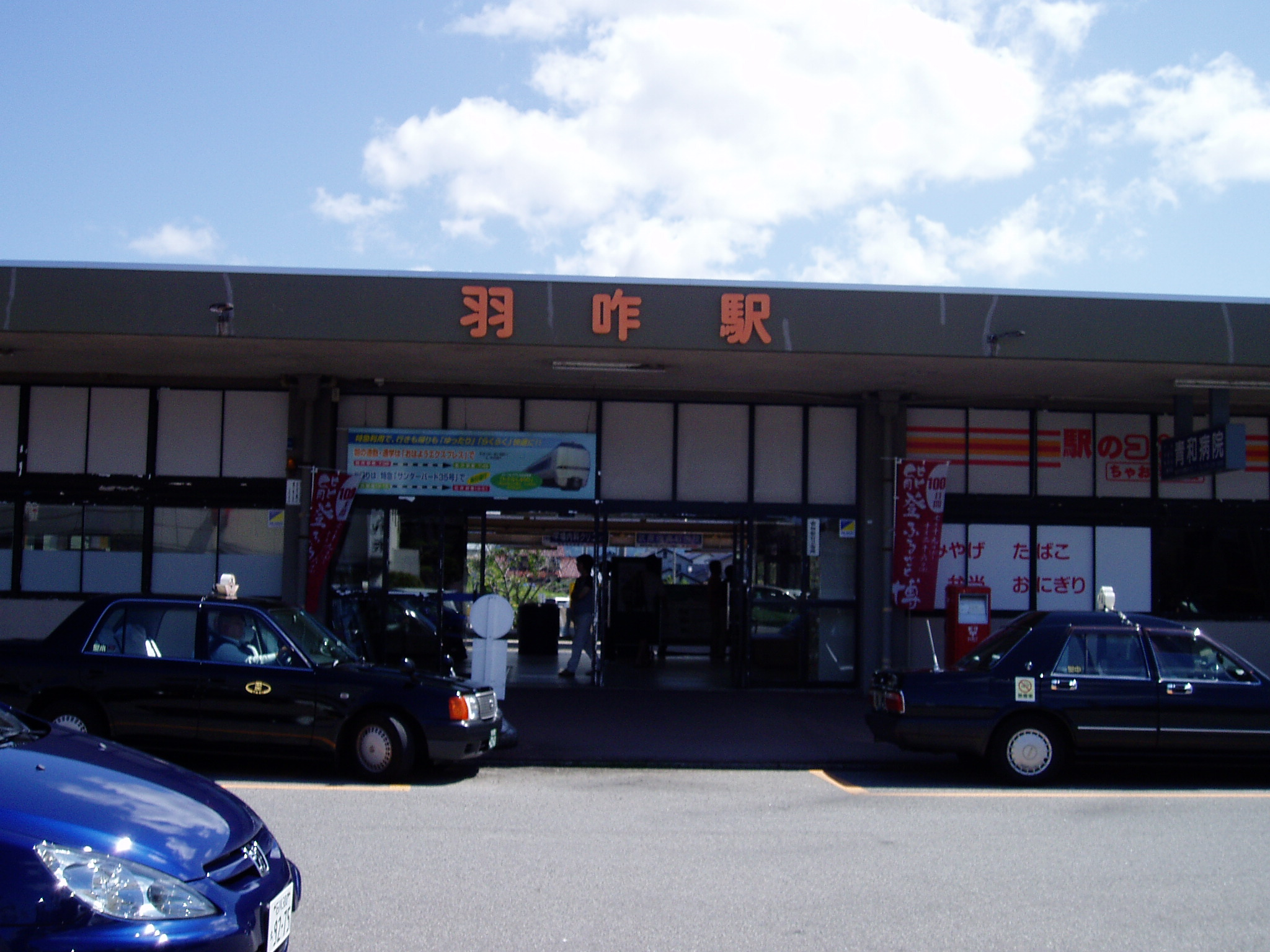 The building of Hakui Station